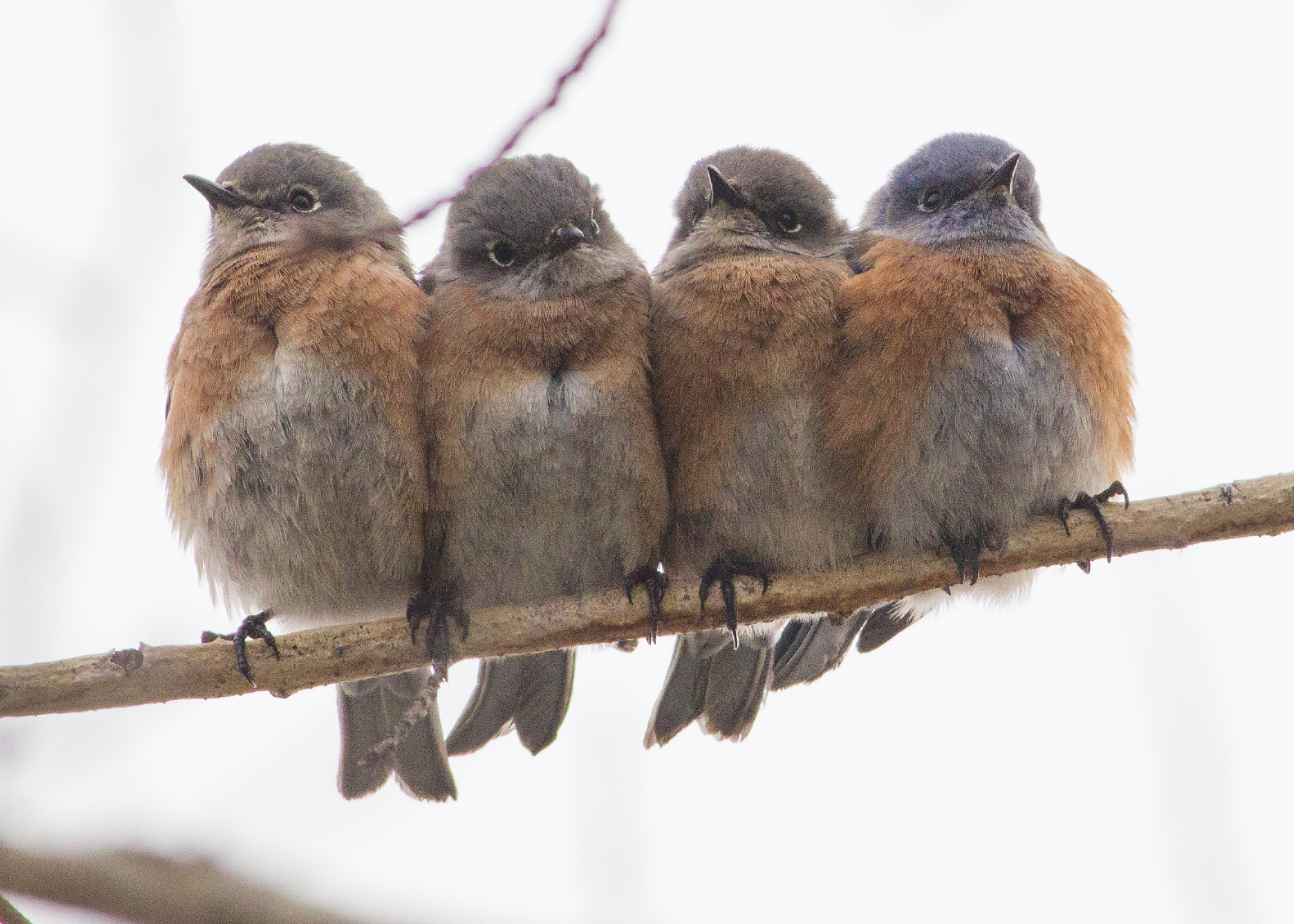 Western bluebirds huddling on a cold December day on the UBC Okanagan campus